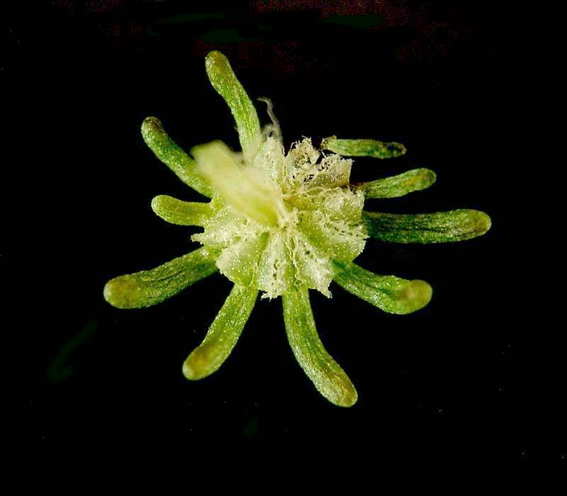 Marchantia polymorpha